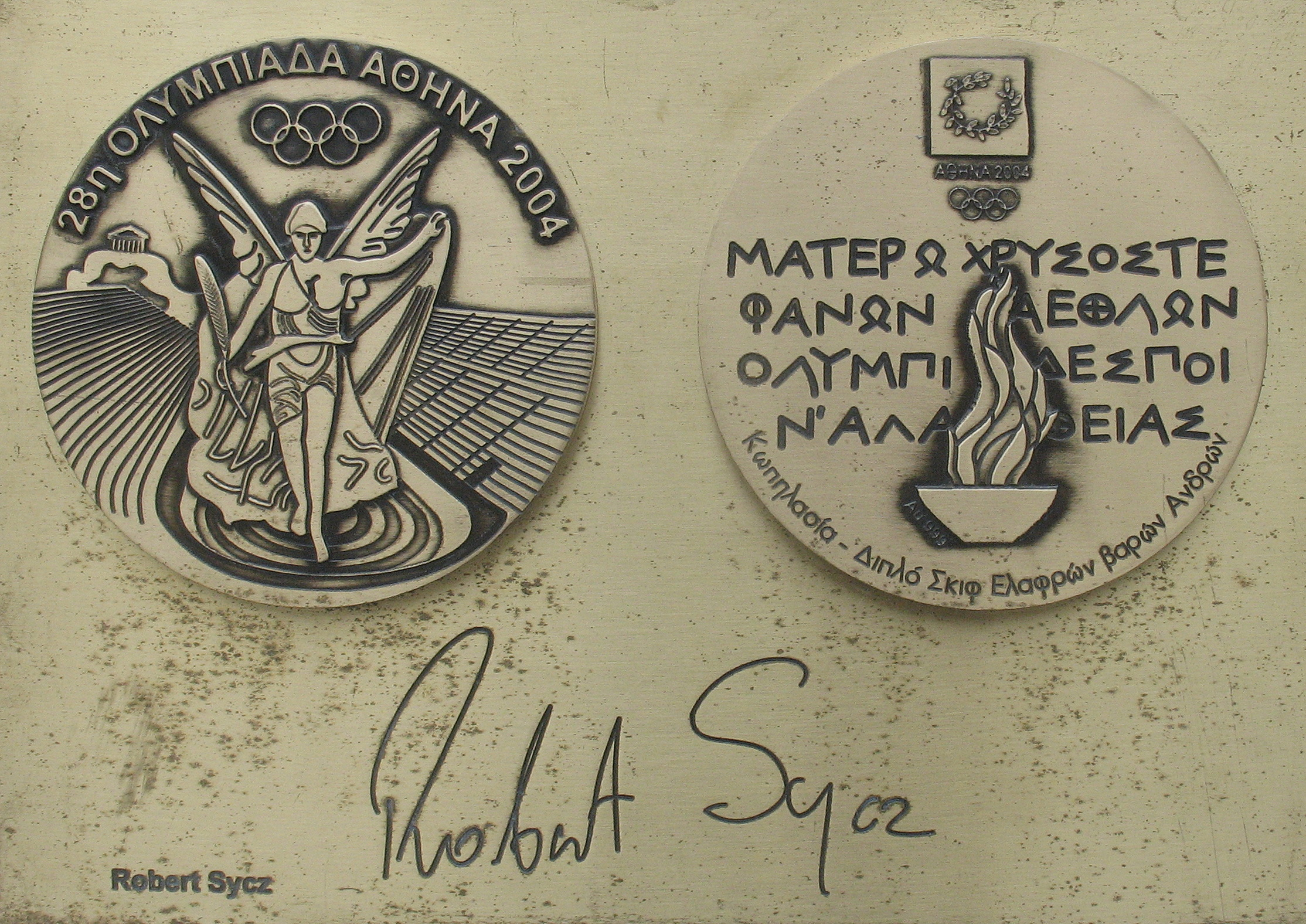 Robert Sycz medal & autograph in Avenue of Sport Stars Dziwnów